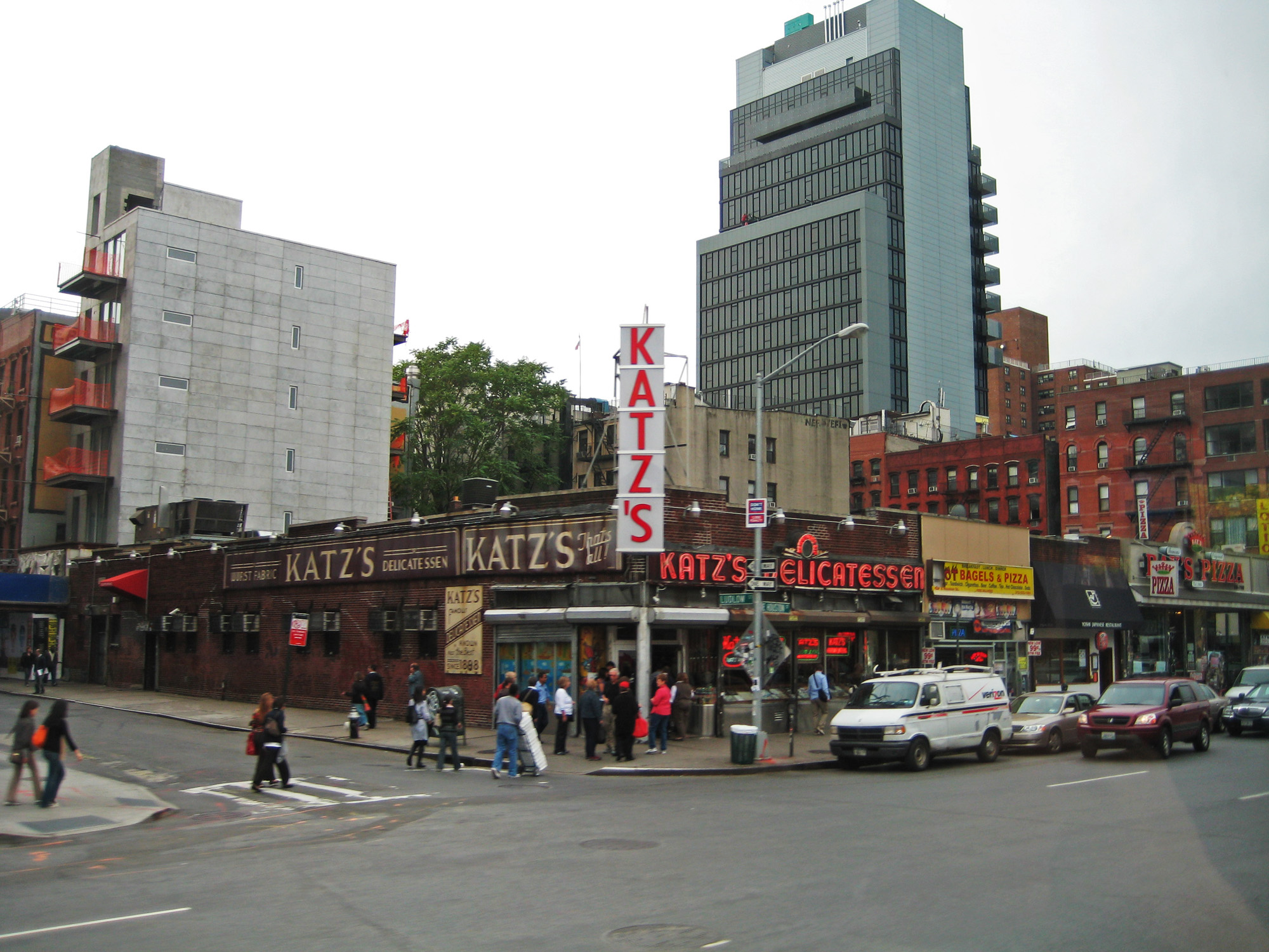 the Katz's Delicatessen Restaurant from "When Harry met Sally".